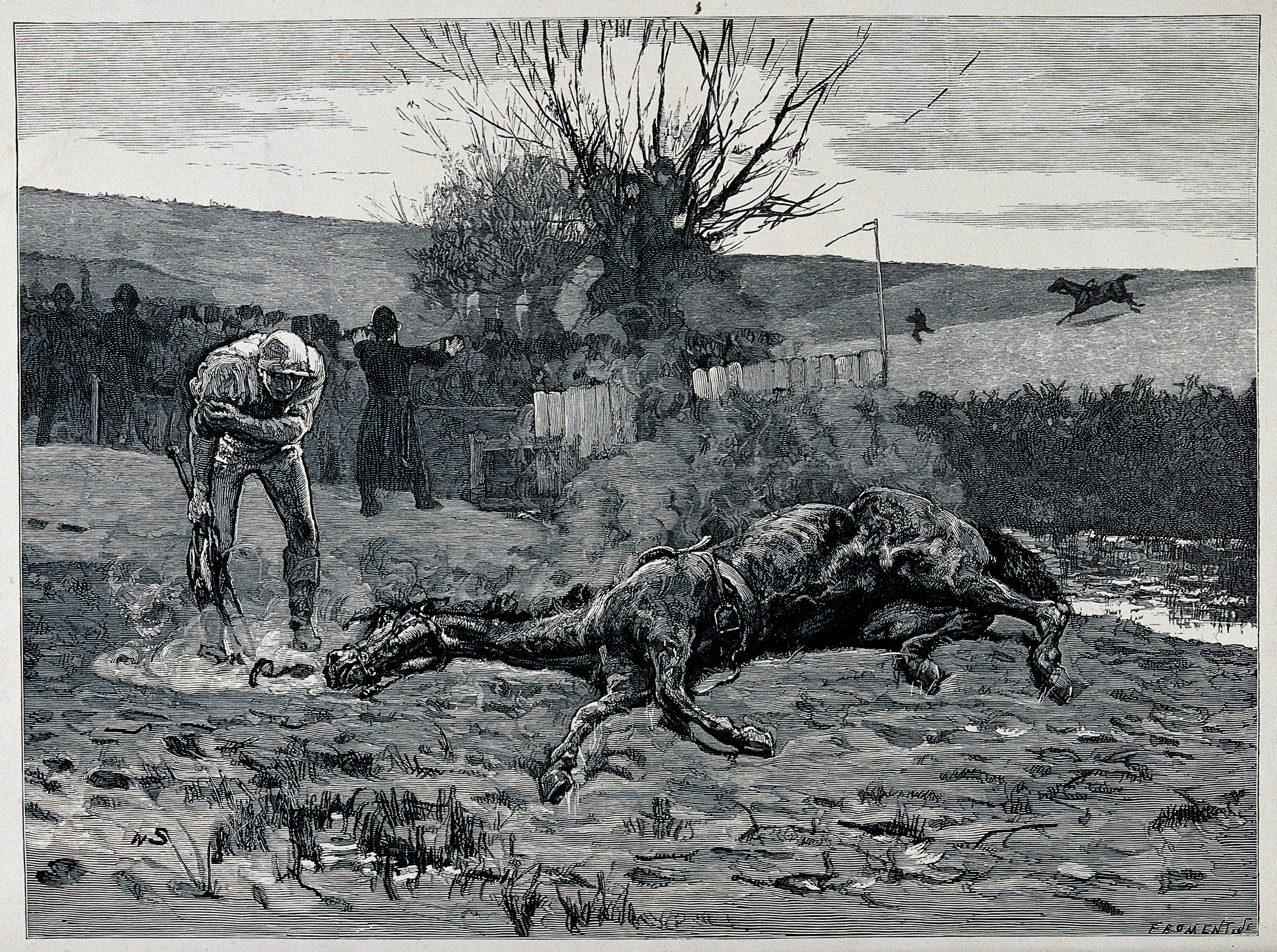 A jockey wearing his cap and holding a whip is bending down to his dead horse after it collapsed after a hurdle in the steeplechase. Line block after a wood engraving by E. Froment (Emile or Eugène ?) after W. Small. Iconographic Collections Keywords: Eugène Froment; William Small